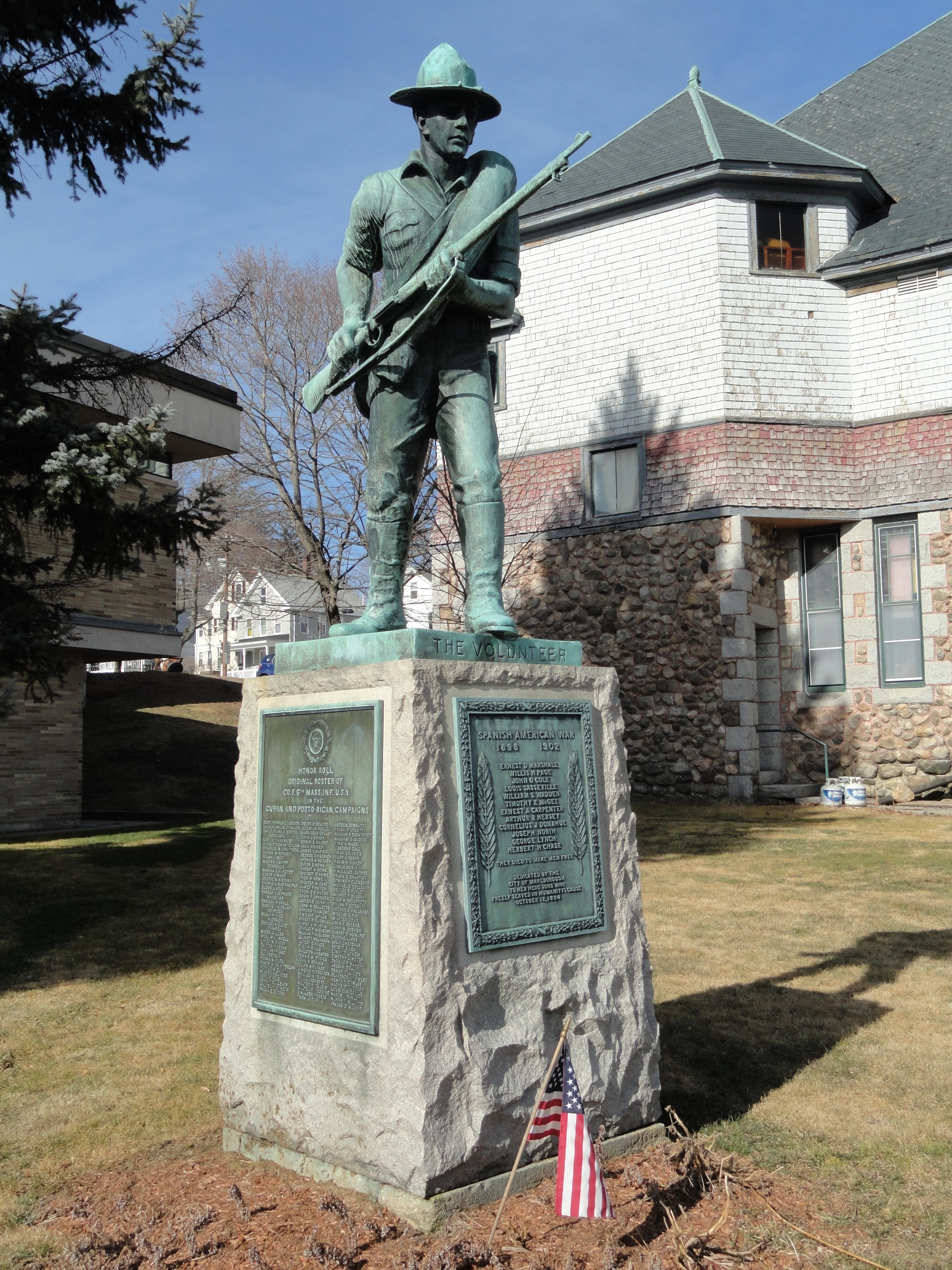 The Volunteer (Spanish-American War Memorial), Monument Square, Marlborough, Massachusetts, USA. Co. Crawford, sculptor; dedicated Oct. 12, 1924. This sculpture is in the public domain in the United States because copyright has not been asserted from 1923 until now. According to the Smithsonian Institution SIRIS system: "Description: A bronze sculpture depicting a Spanish American War infantryman with his rifle held at the ready position. The sculpture stands atop a stone base adorned with a bronze plaque listing the original roster of Company F, 6th Massachusetts Infantry United States Volunteers who served in the Cuban and Puerto Rican campaigns. Inscription: T.F. MCGANN & SONS CO BOSTON, MA (On front of bronze base:) THE VOLUNTEER (On bronze plaque on front of stone base:) SPANISH AMERICAN WAR/1898-1902/ (list of names) / DEDICATED BY THE CITY OF MARLBOROUGH TO HER SONS WHO FREELY SERVED IN HUMANITY'S CAUSE unsigned Founder's mark appears."